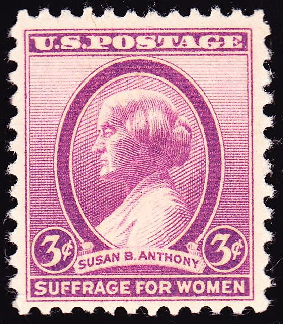 US Postage stamp, Susan B. Anthony, 1936 issue, 3c